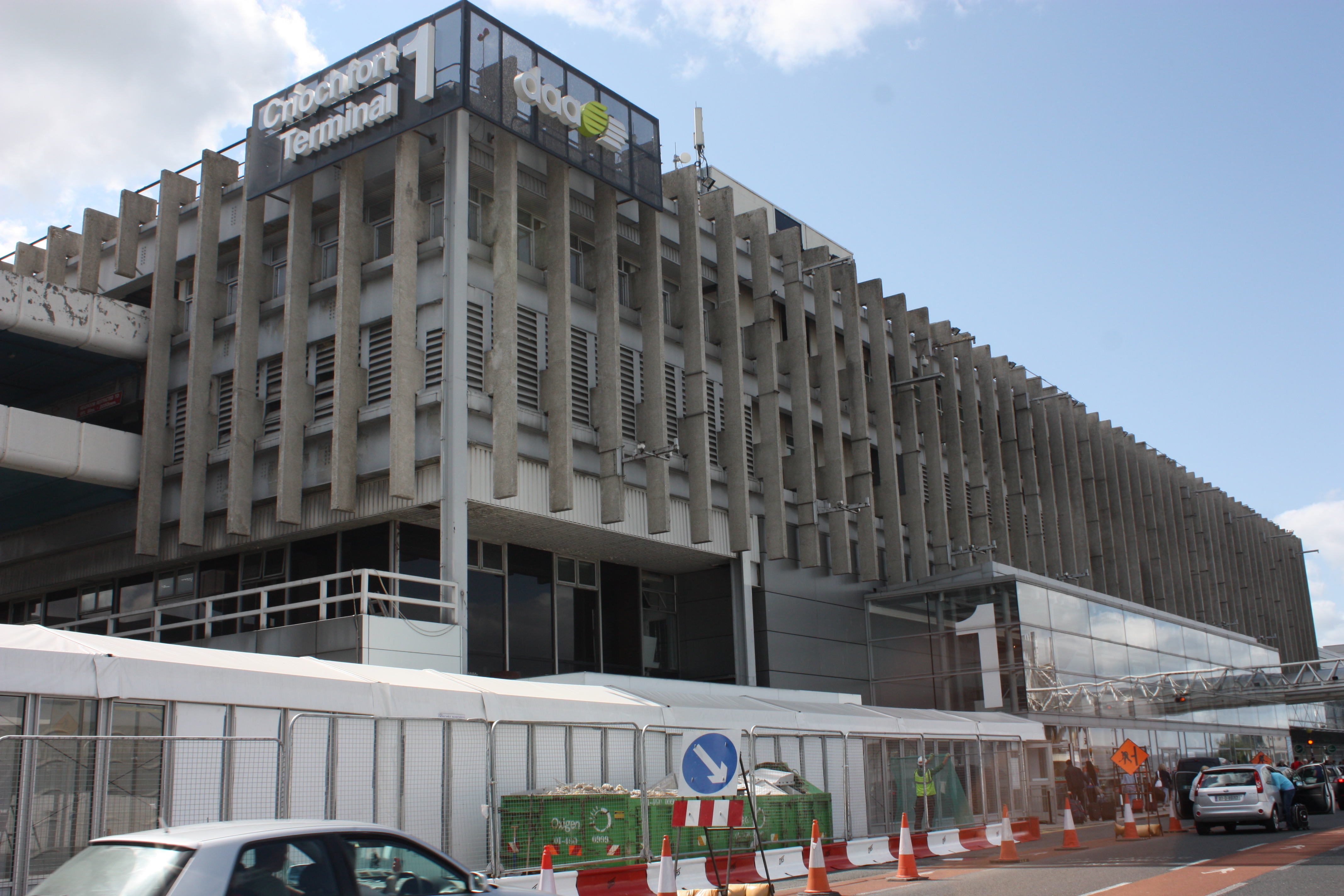 Terminal 1, Dublin Airport, Dublin, Ireland, May 2011